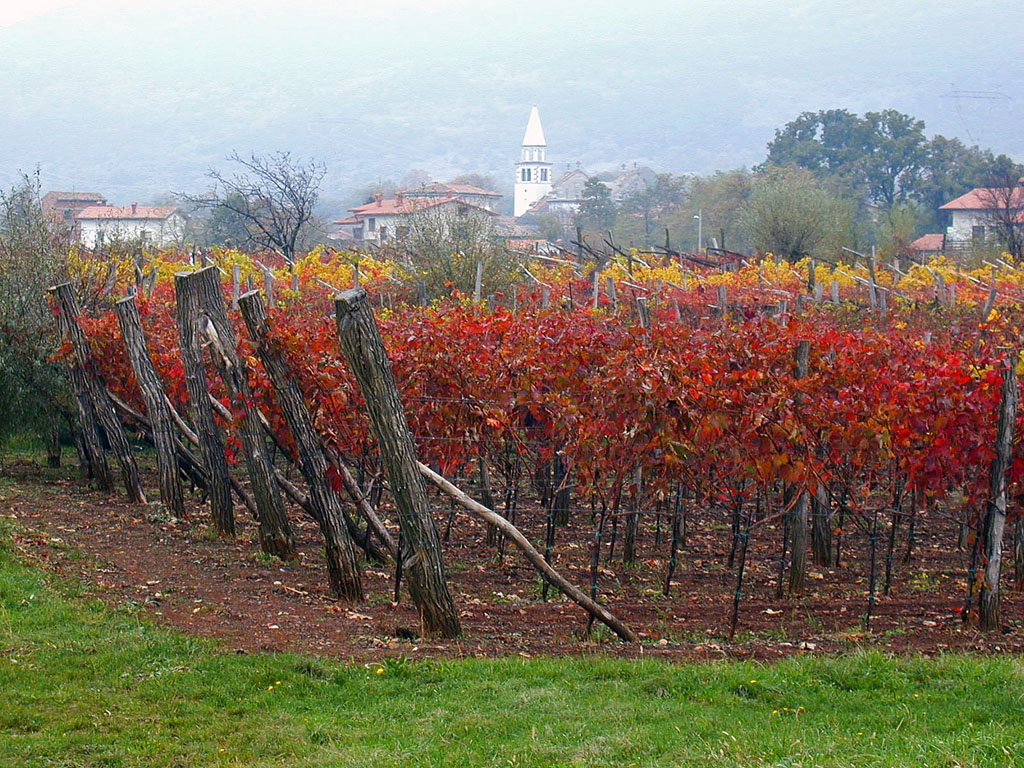 Škrbina na Krasu